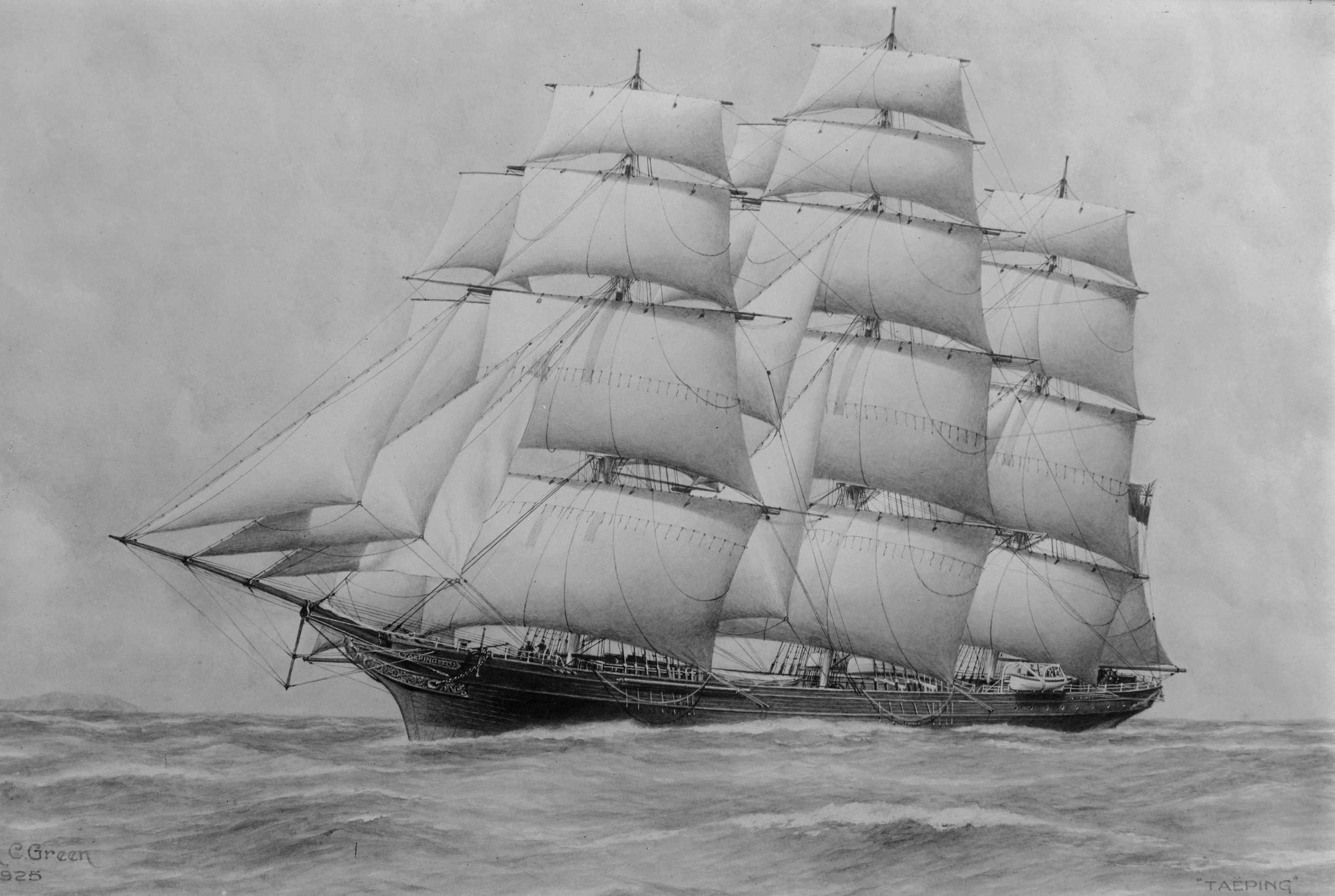 Clipper ship Taeping under full sail; photograph of a painting by Allan C. Green 1925